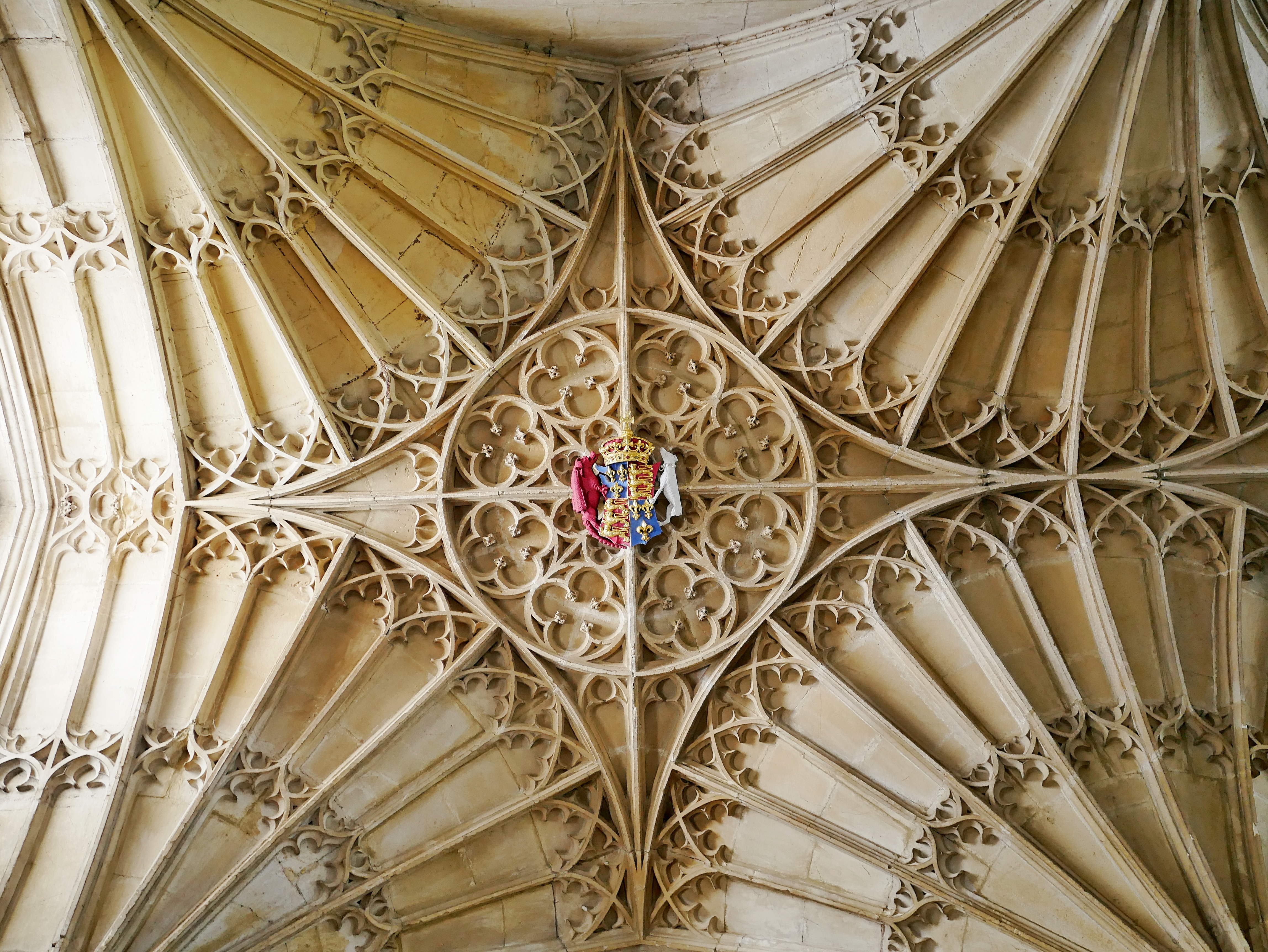 Ceilings of St David's Cathedral, the holy trinity chapel